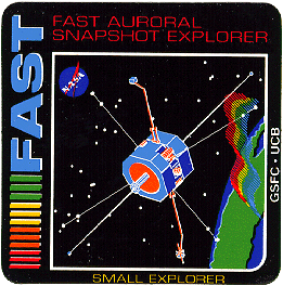 FAST mission logo/patch.